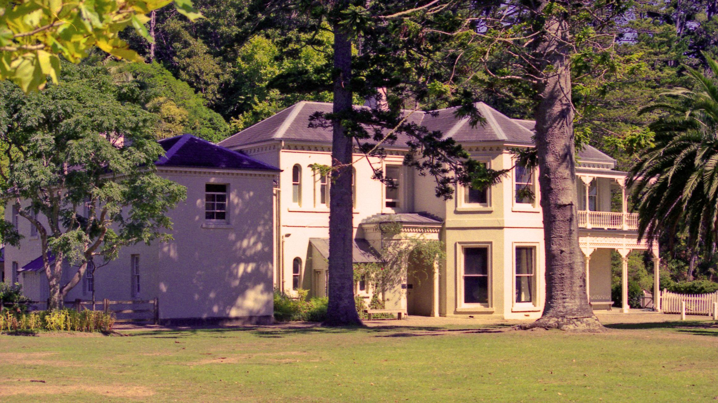 Mansion House, Kawau Island, Northland, New Zealand